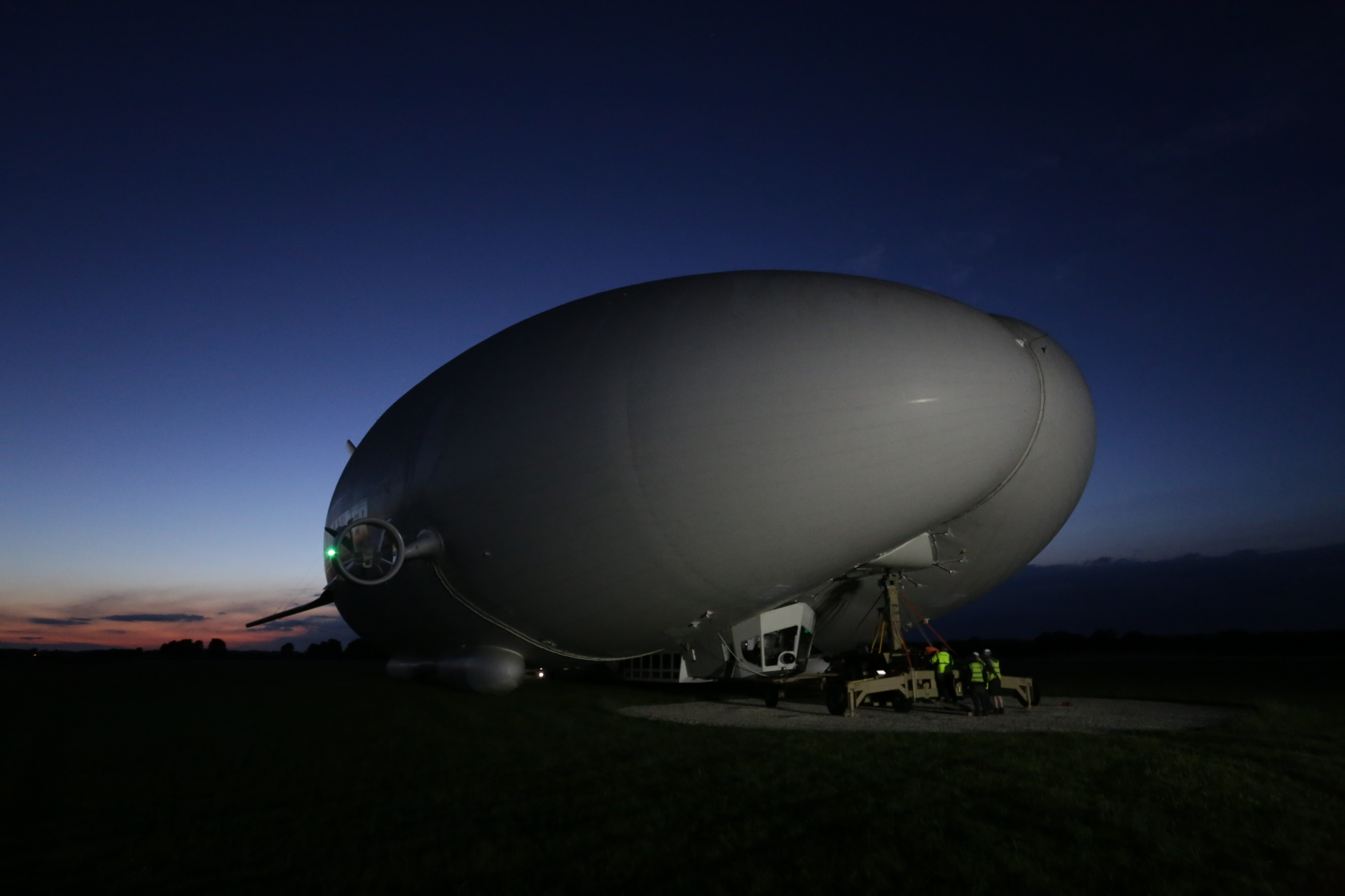 Airlander 10 - On Mast at Sunrise